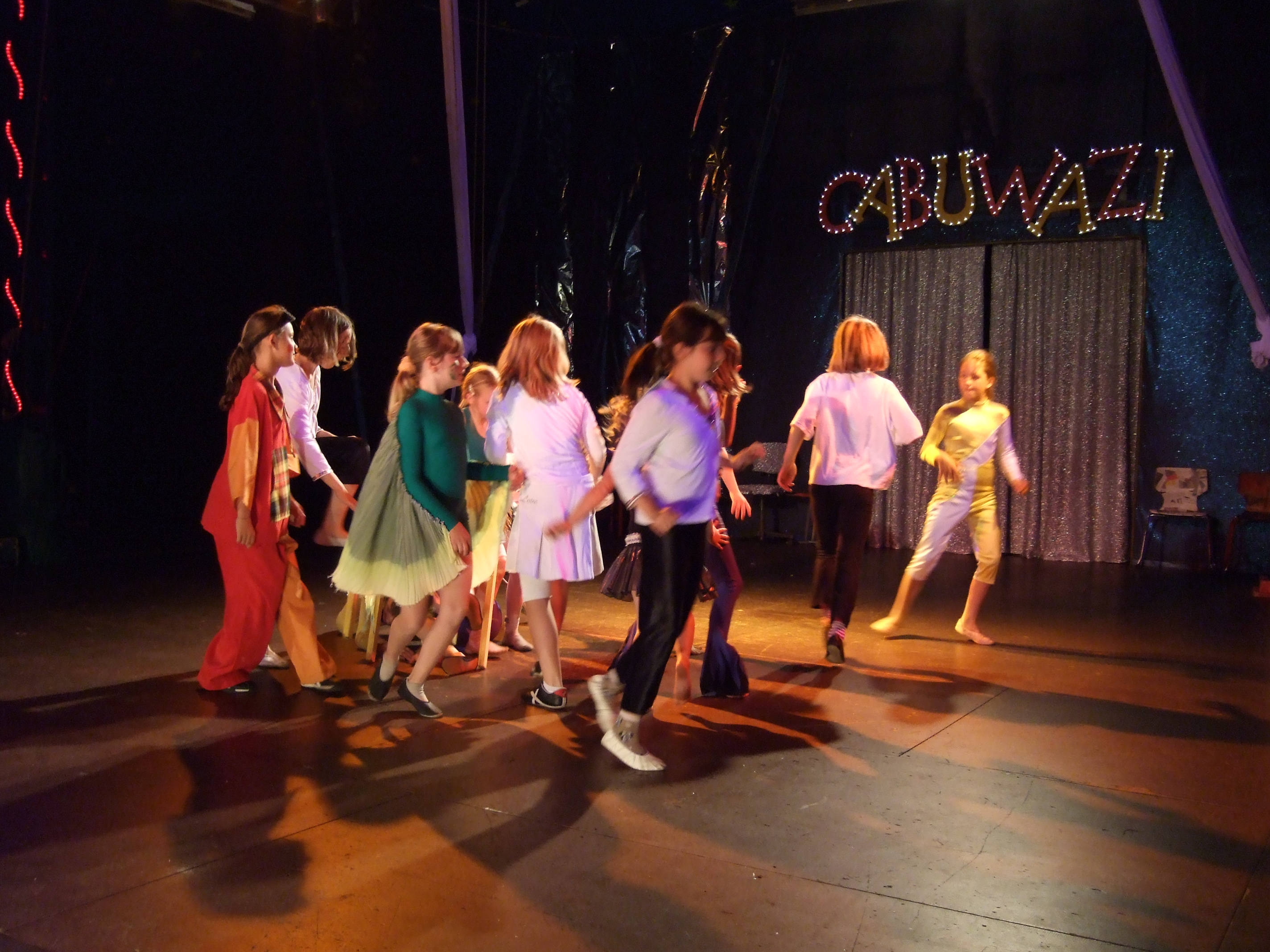 Children performing in a show of the Kinder- und Jugendzirkus Cabuwazi e.V. circus.